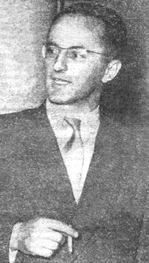 Hasan Brkić (16 July 1913 – 14 July 1965), Bosnian politician.